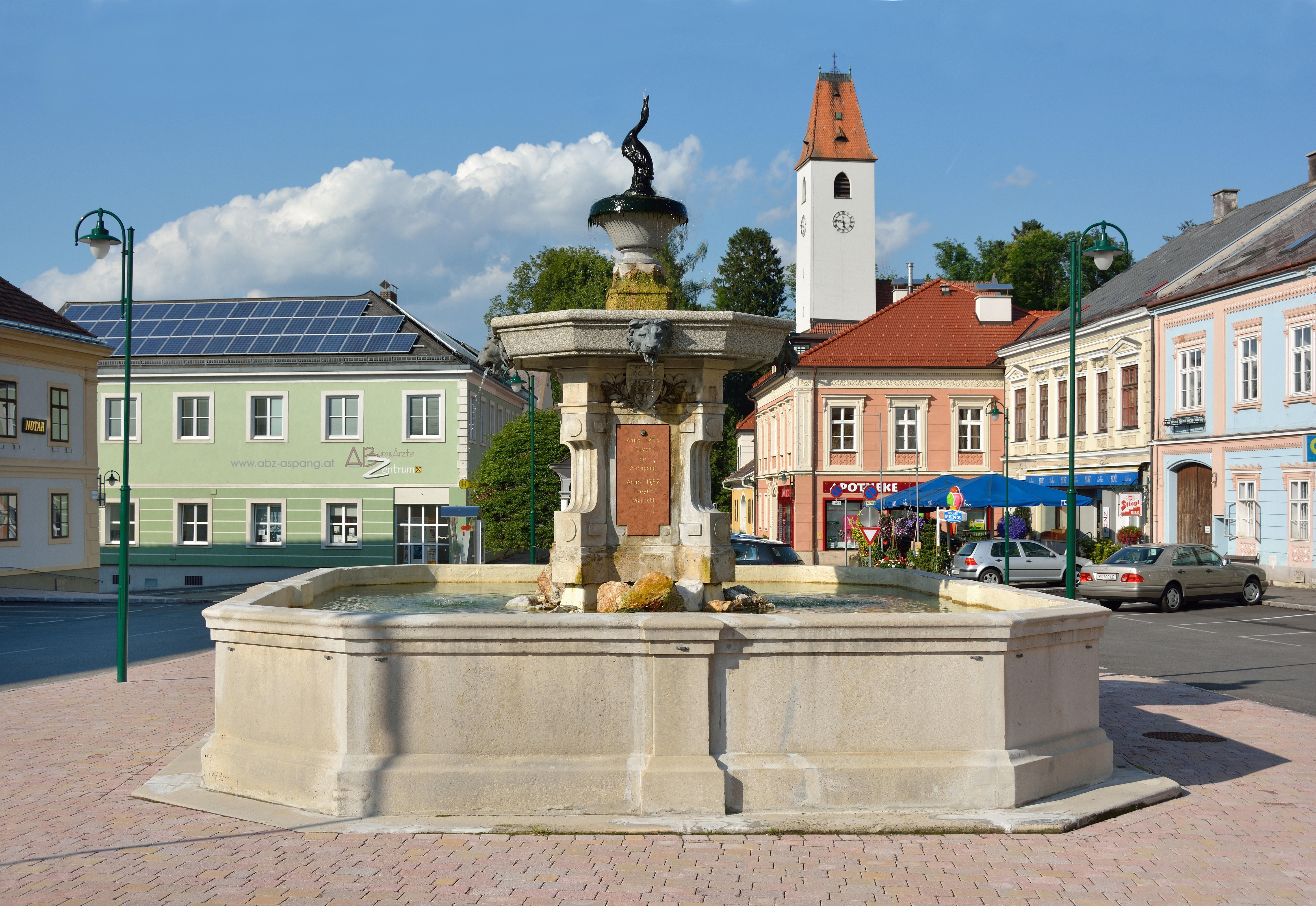 Fountain in Aspang-Markt, in the background the parish church Saint Florian, Lower Austria